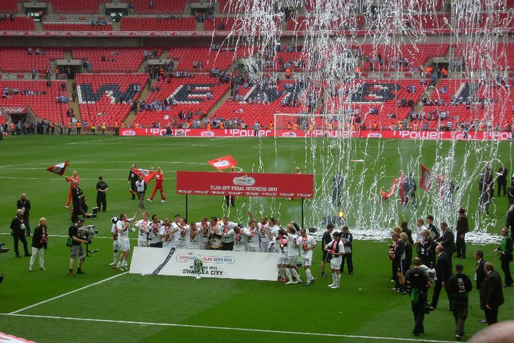 Players and staff of Swansea City Football Club celebrate winning the 2010/11 Championship Play Off Final on the Wembley pitch.